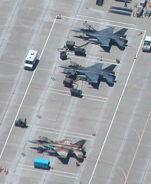 F-16I with 2 F-16Ds at Edwards AFB